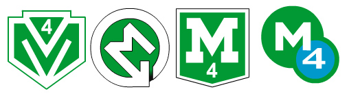 Plans for the 4th metro line of Budapest See more: metros.hu